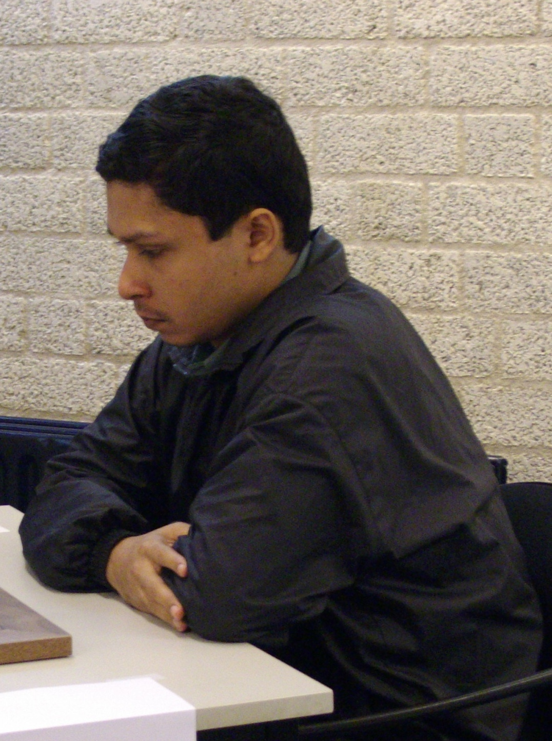 GM Chanda Sandipan, India, Leiden Chess Tournament 2008